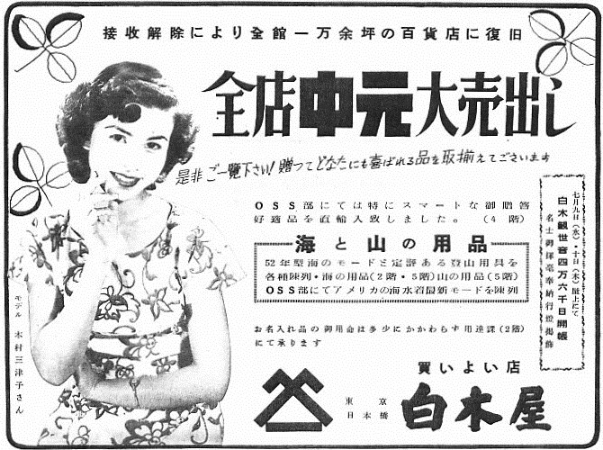 Advertisement of Shirokiya in 1952